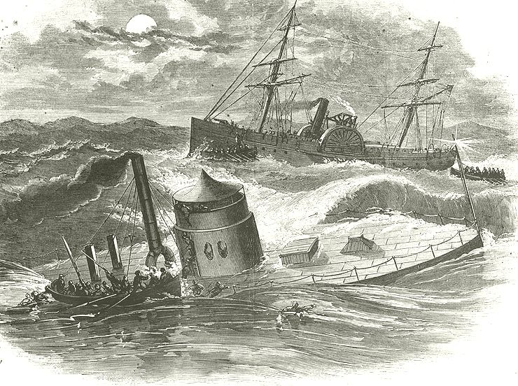 Line engraving published in "Harper's Weekly", 1863, depicting USS Monitor sinking in a storm off Cape Hatteras on the night of 30-31 December 1862. A boat is taking off crewmen, and USS Rhode Island is in the background. Removed caption read: Photo # NH 58758 "The Wreck of the Iron-clad 'Monitor'", off Cape Hatteras, 30-31 December 1862THE WRECK OF THE IRON-CLAD "MONITOR"